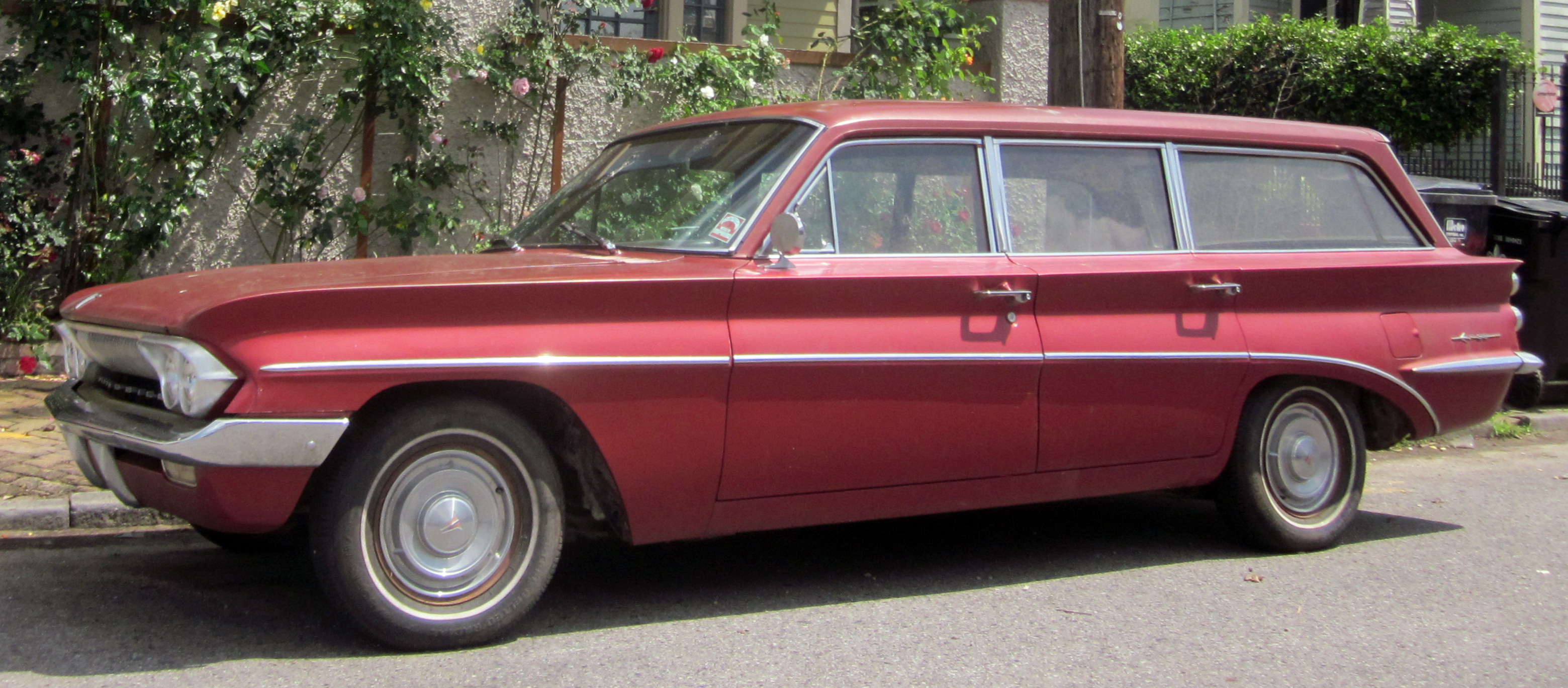 1961 Oldmobile F-85 DeLuxe station wagon on Montegut Street, Bywater, New Orleans.